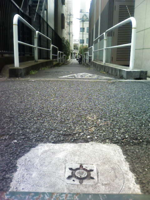 Egota river,Nerima, Tokyo, Japan